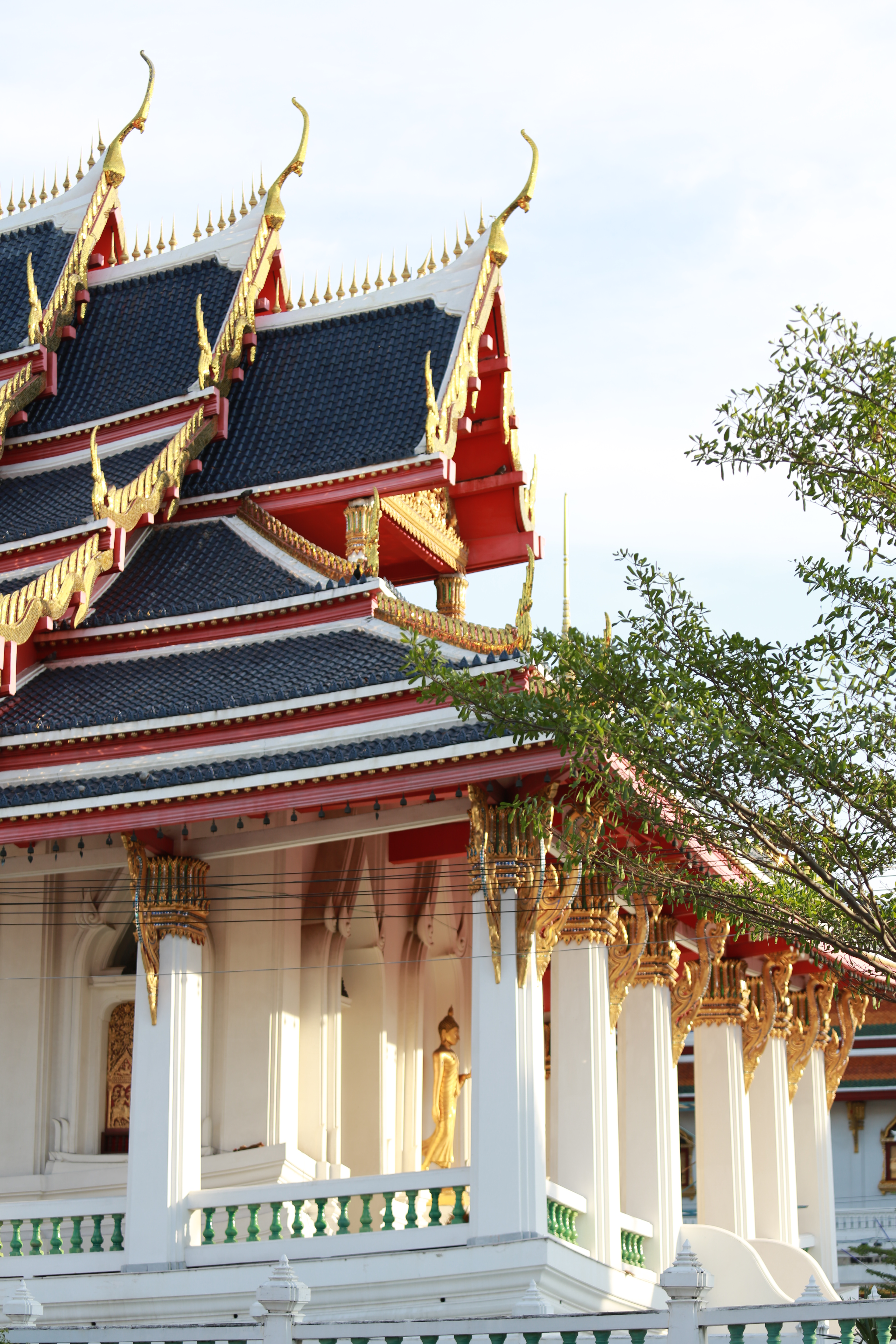 Chapel of Bungthonglang temple